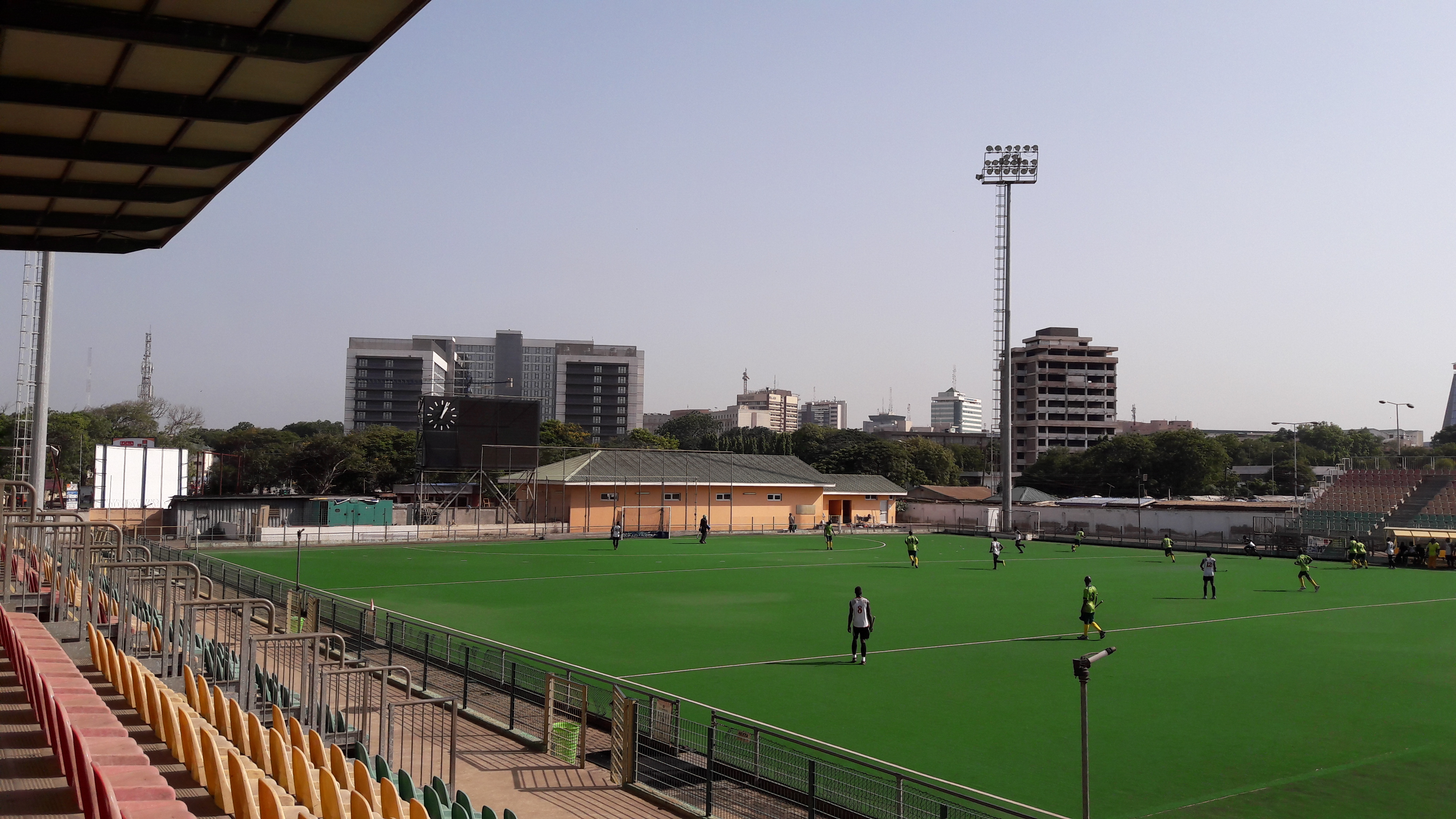 The hockey stadium during a men's league match.